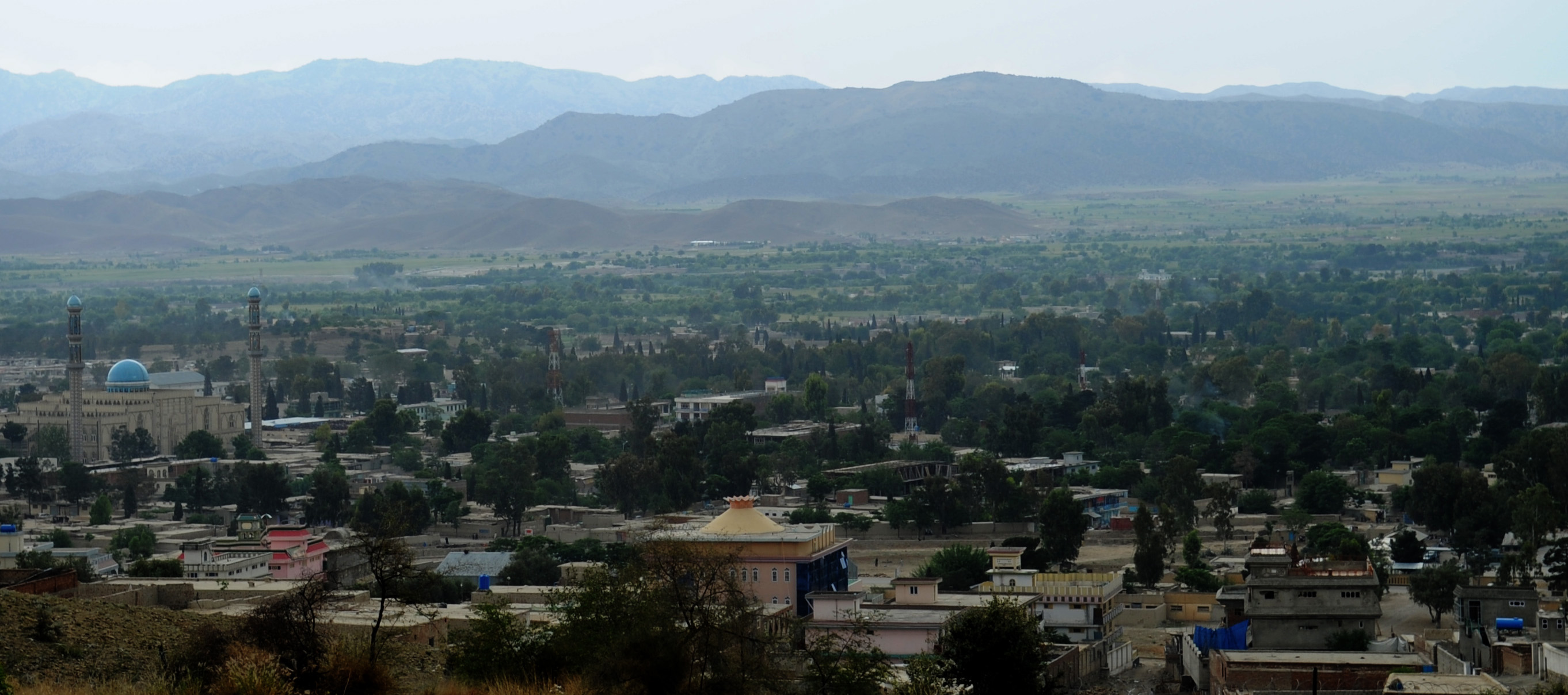 A view of Khost, Afghanistan in April 27th, 2010, in Khost province, Afghanistan.